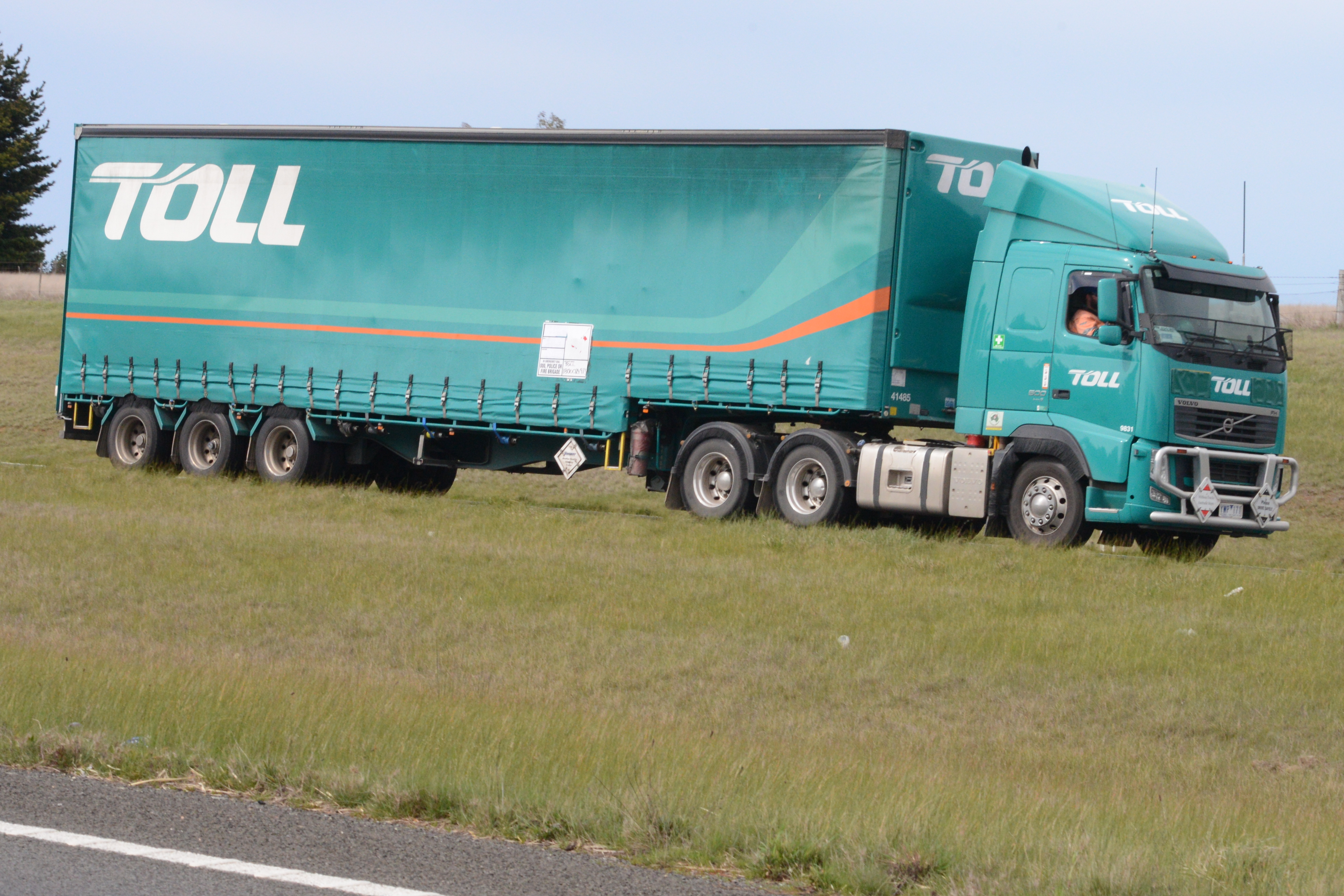 Toll Volvo FH on Western Hwy Ballarat.